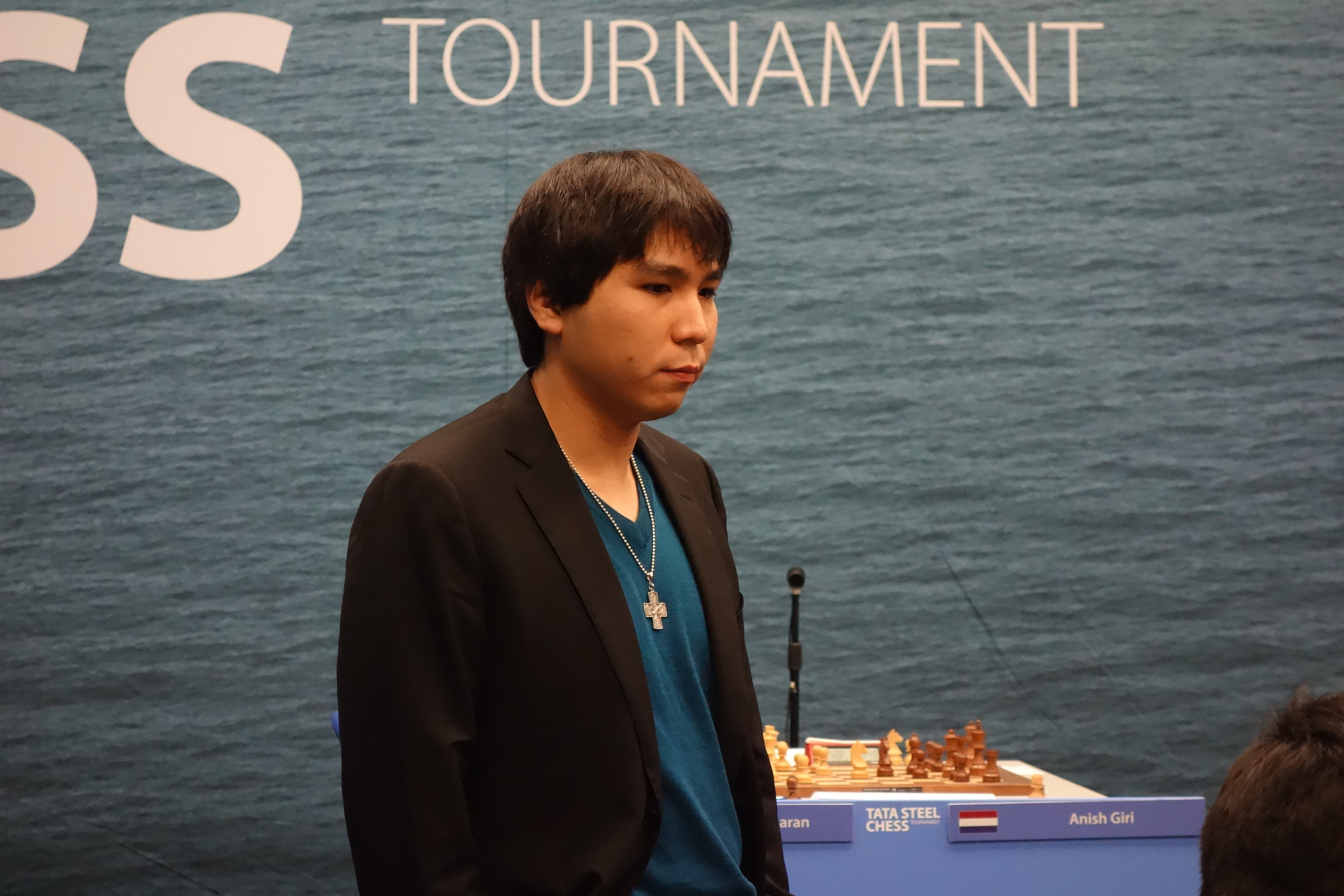 Wesley So at Tata Steel Chess Tournament 2017, Wijk aan Zee (the Netherlands), 28 January 2017